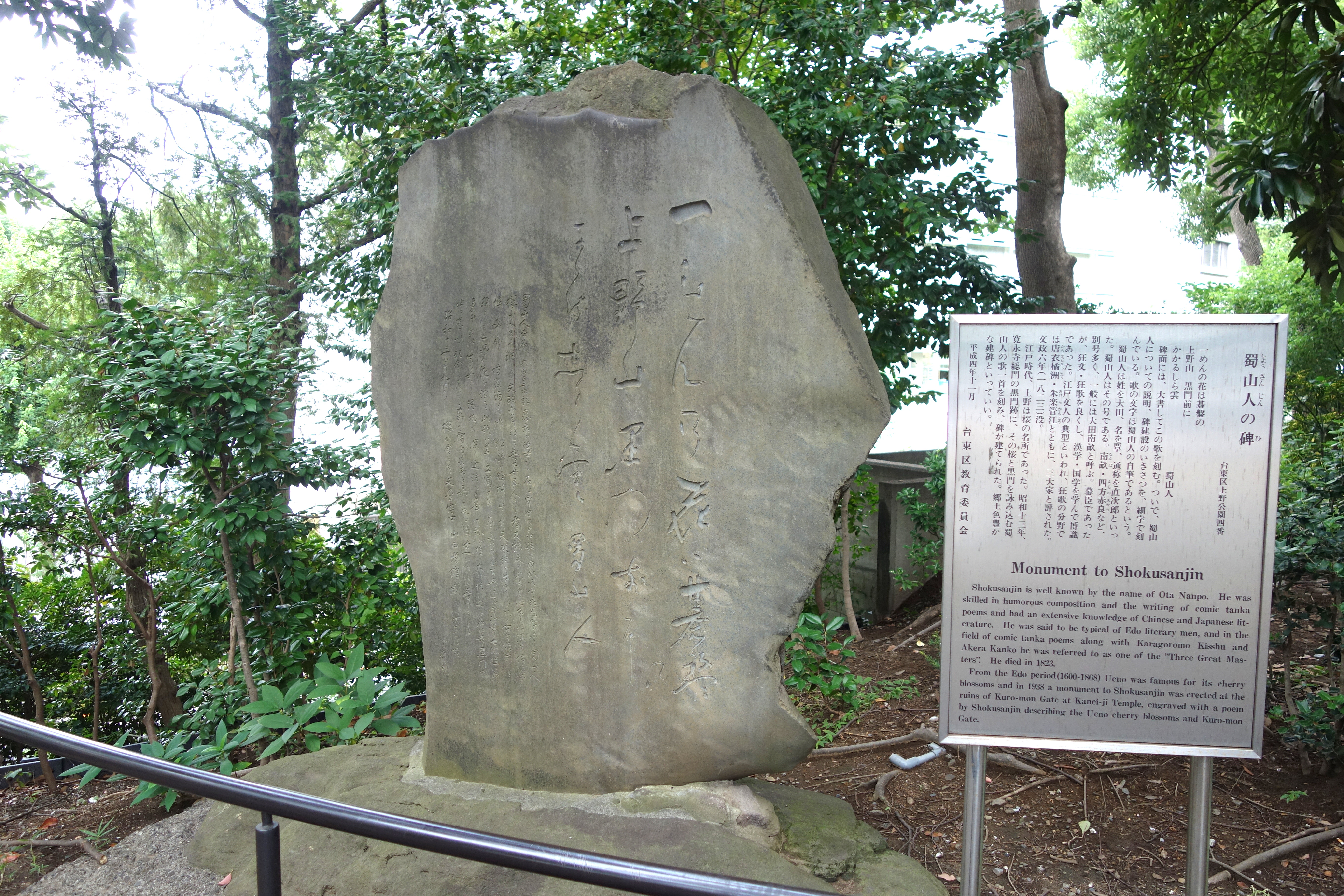 Shokusanjin (Ota Nanpo) monument - Ueno Park, Tokyo, Japan.